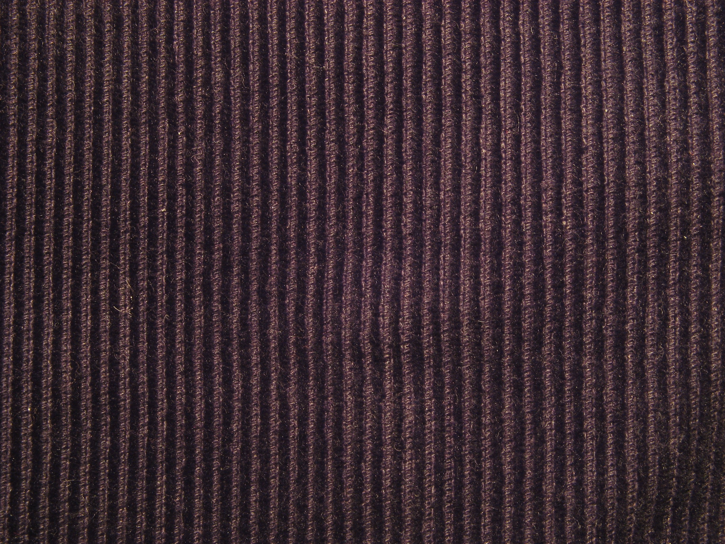 Corduroy from cotton (Manchester)